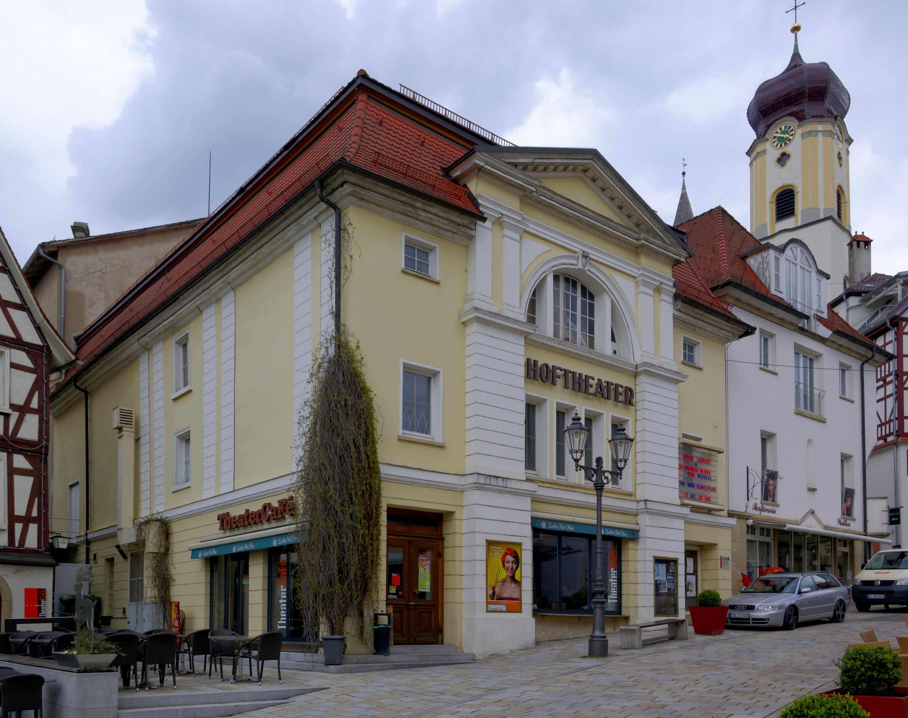 Sigmaringen, Hoftheater